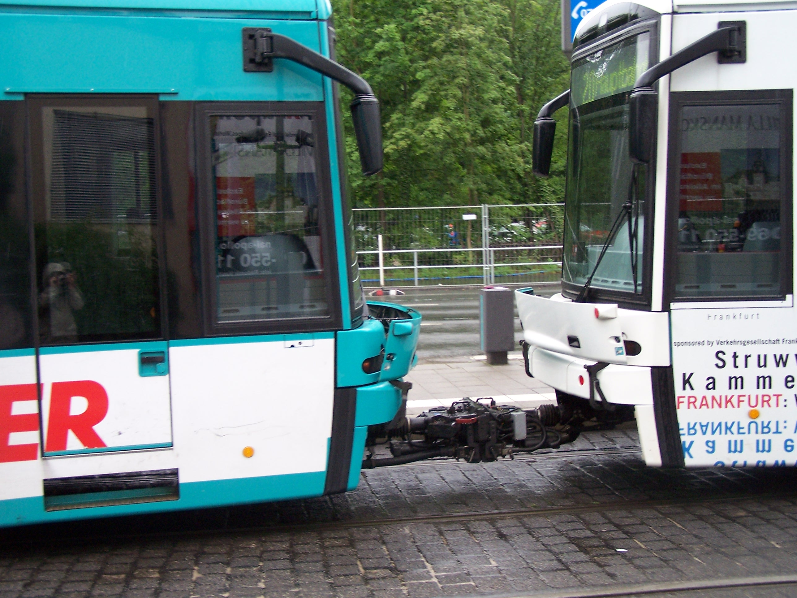 Tramway at Frankfurt am Main: 2 x Tram S-Type at Oberforsthaus, May 2007